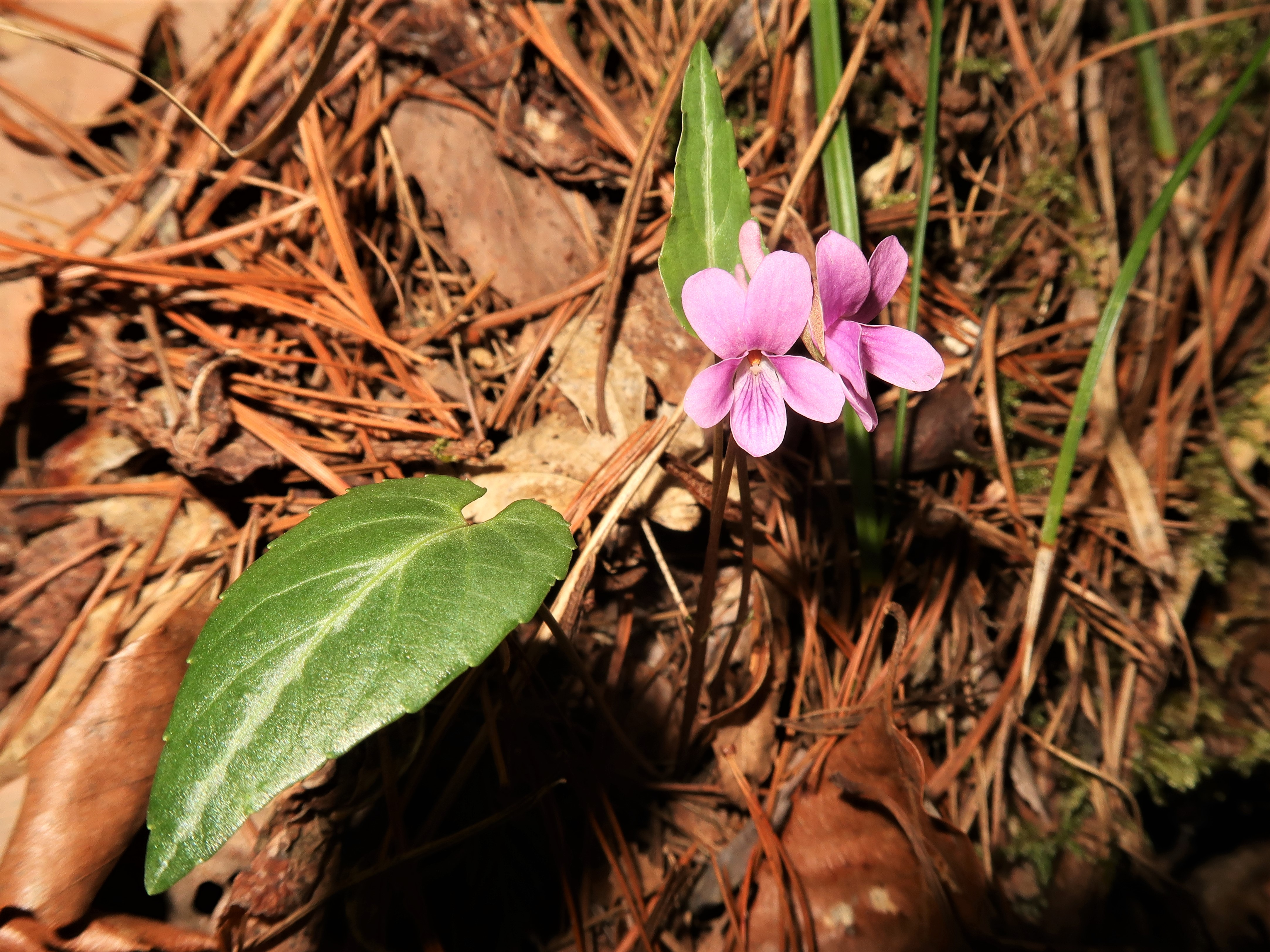 Viola violacea var. makinoi, Aizu area, Fukushima pref., Japan